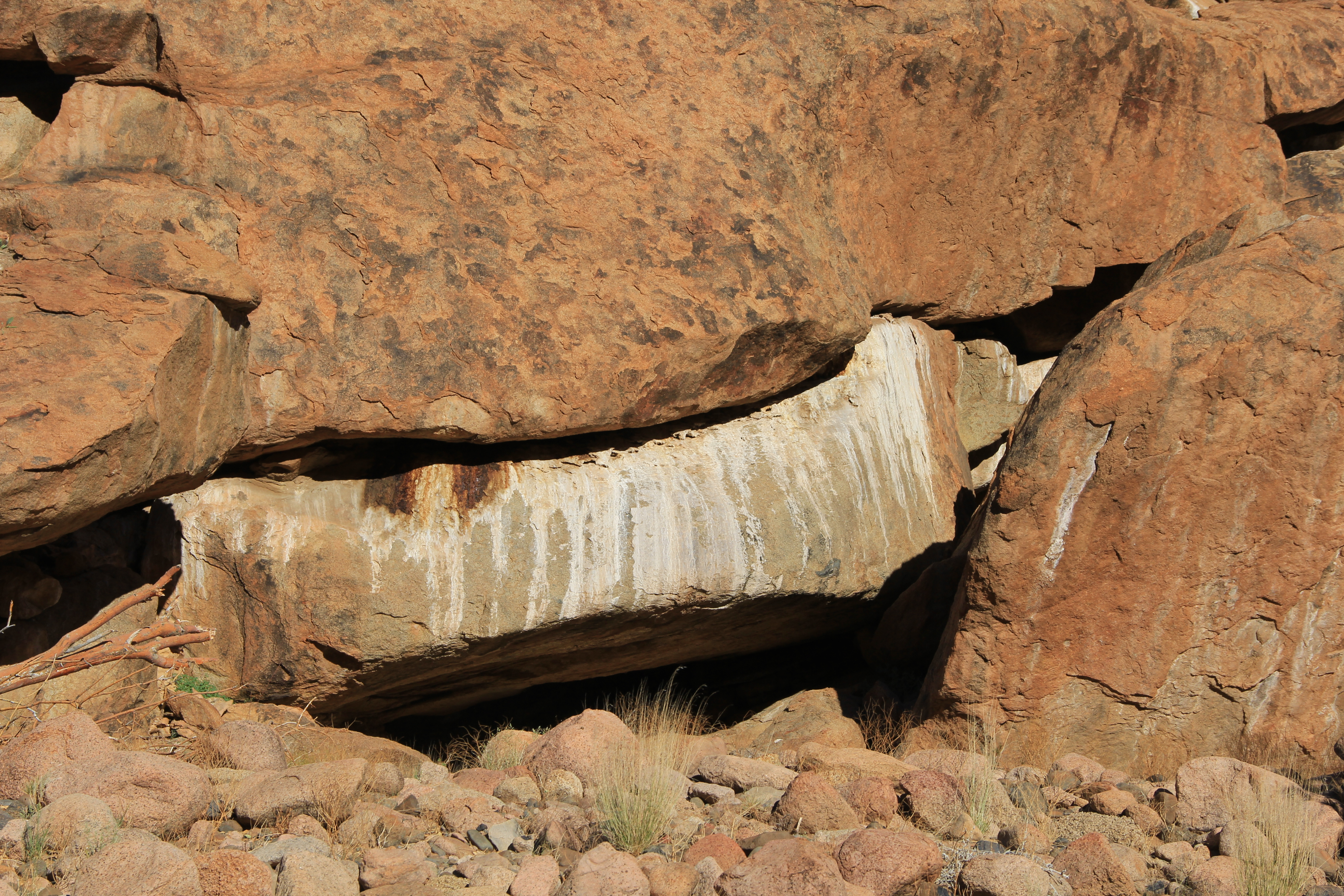 Latrine of Rock hyrax with „Hyraceum“, a mass of dung and urine. Tsisab gorge, Brandberg, Namibia.